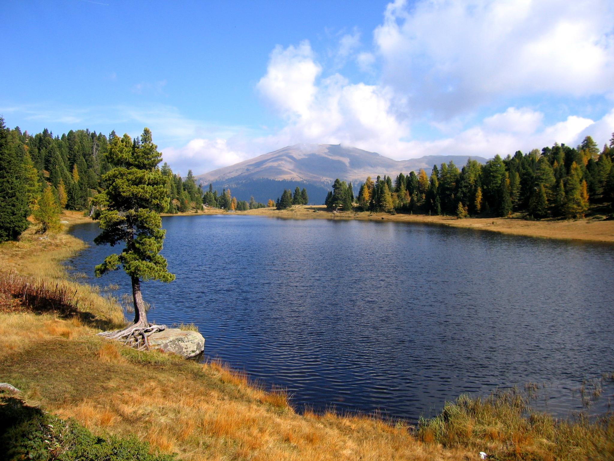 Lake Schwarzsee in the Nockberge mountain range near Turracher Höhe at the border between Carinthia and Styria / Austria / EU. The Styrian mountains in the background are Eisenhut and Wintertalernock.